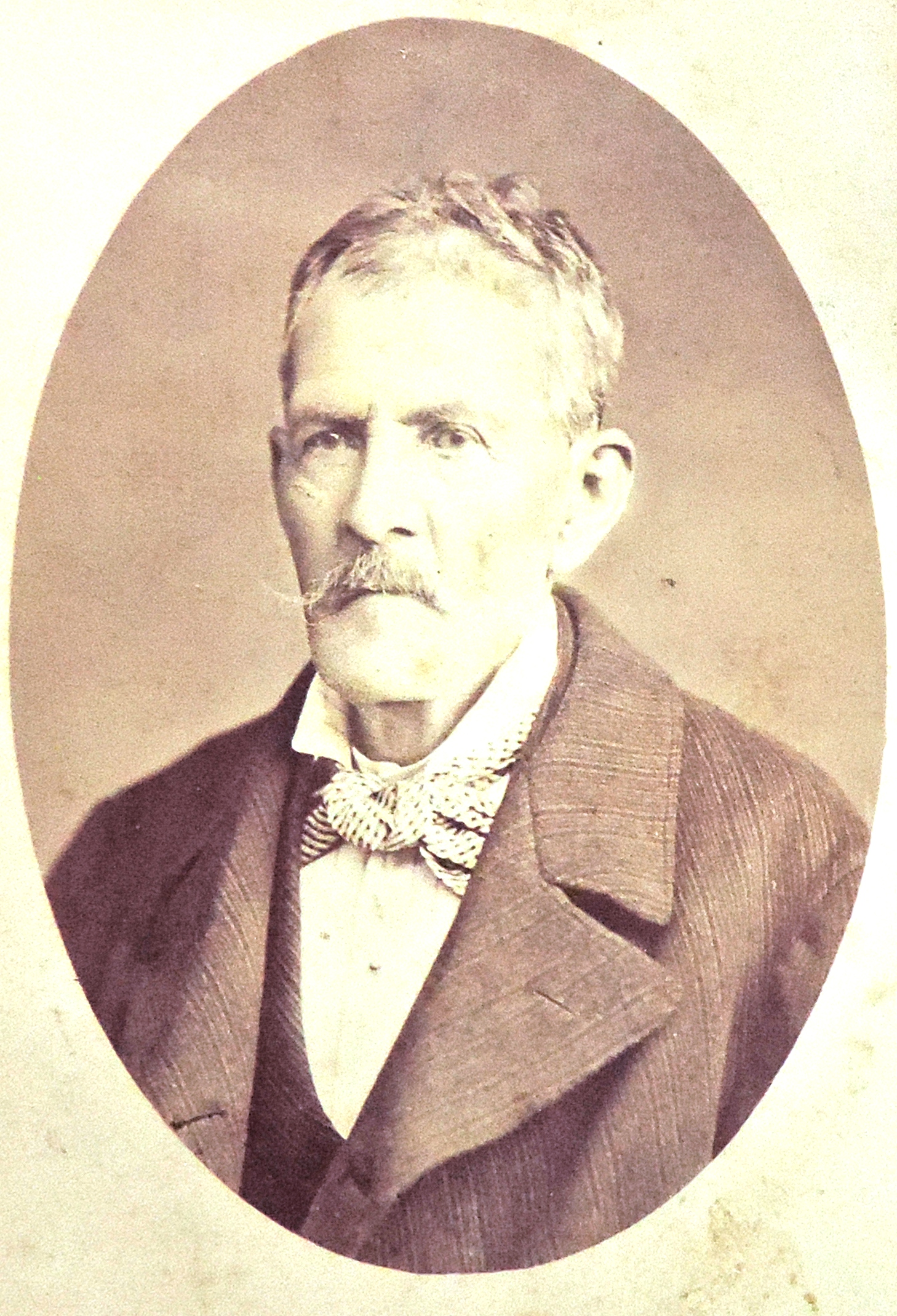 Bulgarian doctor, educationalist and archaeologist Dr. Vasil Beron, nephew of Dr. Petar Beron and director of Bolgrad high school to 1872. Bucharest, 1880